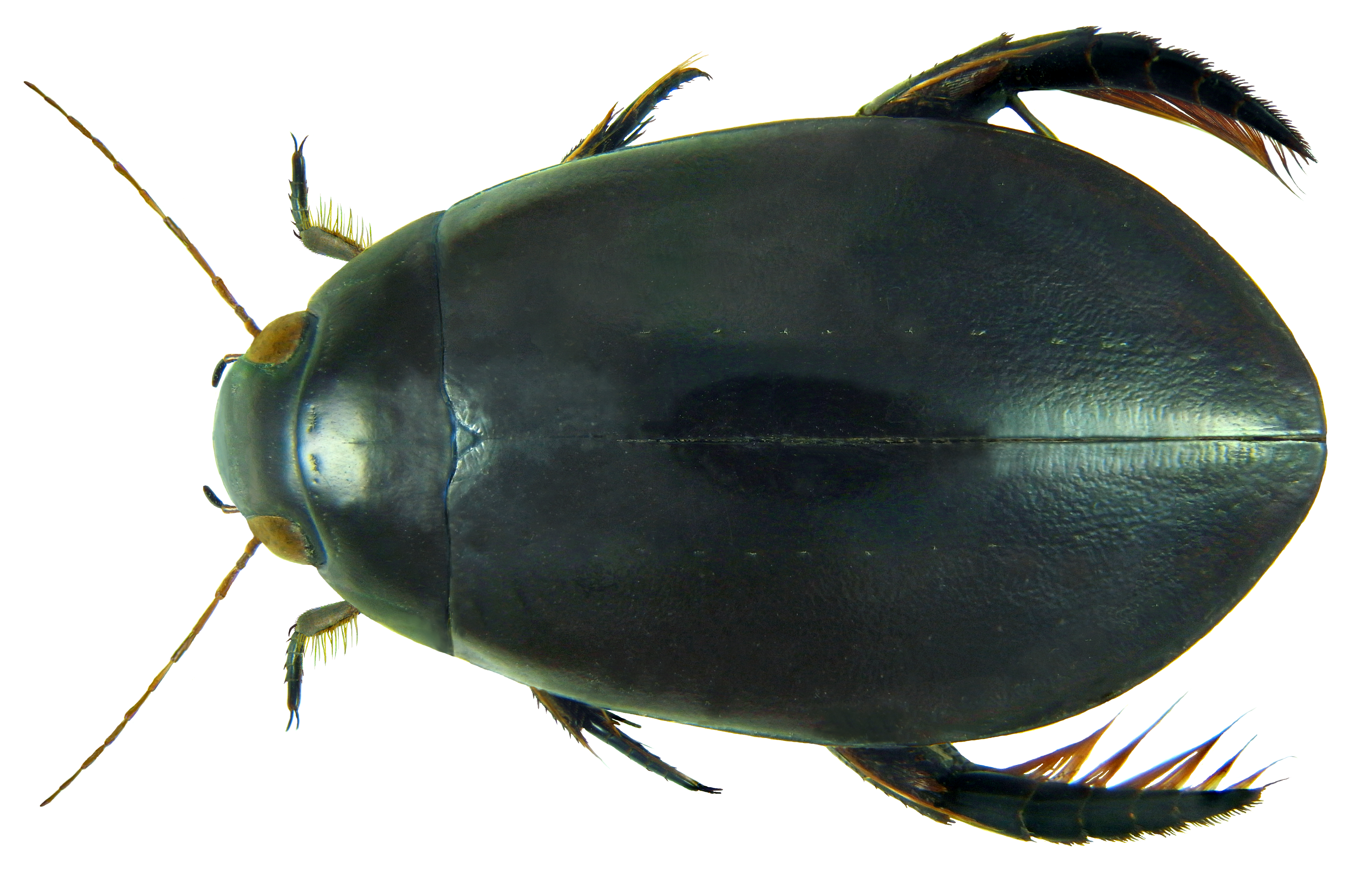 Dorsal view of Cybister siamensis Familie; Dytiscidae Groesse: 25 mm Fundort: Laos leg. Harmand, 1876; det. Hendrich, 2007 Photo: U.Schmidt, 2012